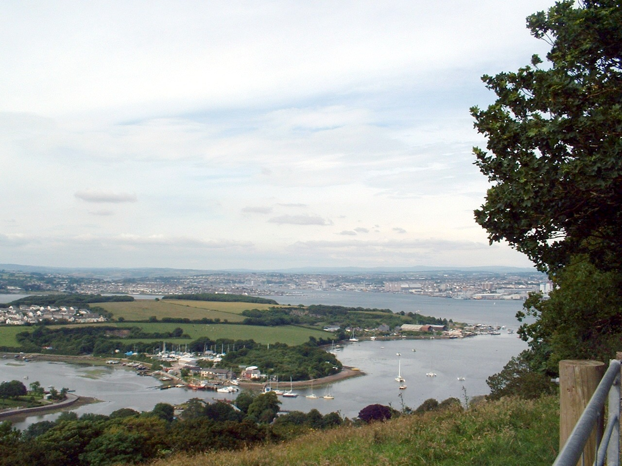 Devonport Dockyard and the Hamoaze from the Rame Peninsula, Cornwall. Taken by Necrothesp, 7 July 2005.